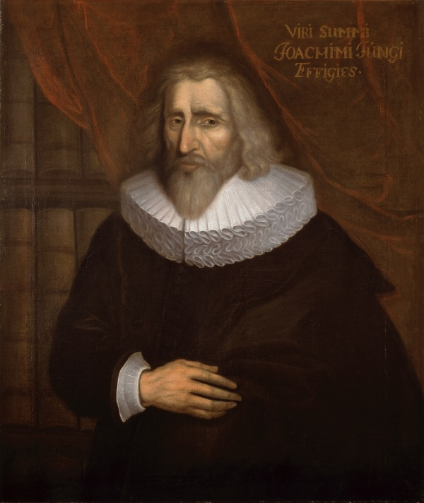 Portrait of Joachim Jungius